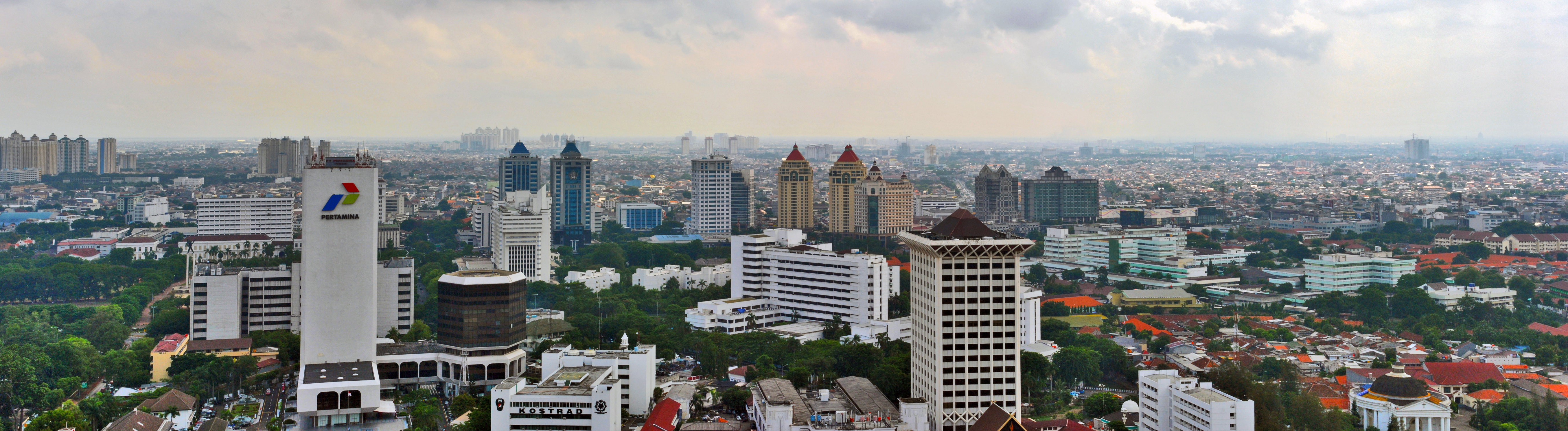 Skyline of Eastern part of Jakarta from Monas.